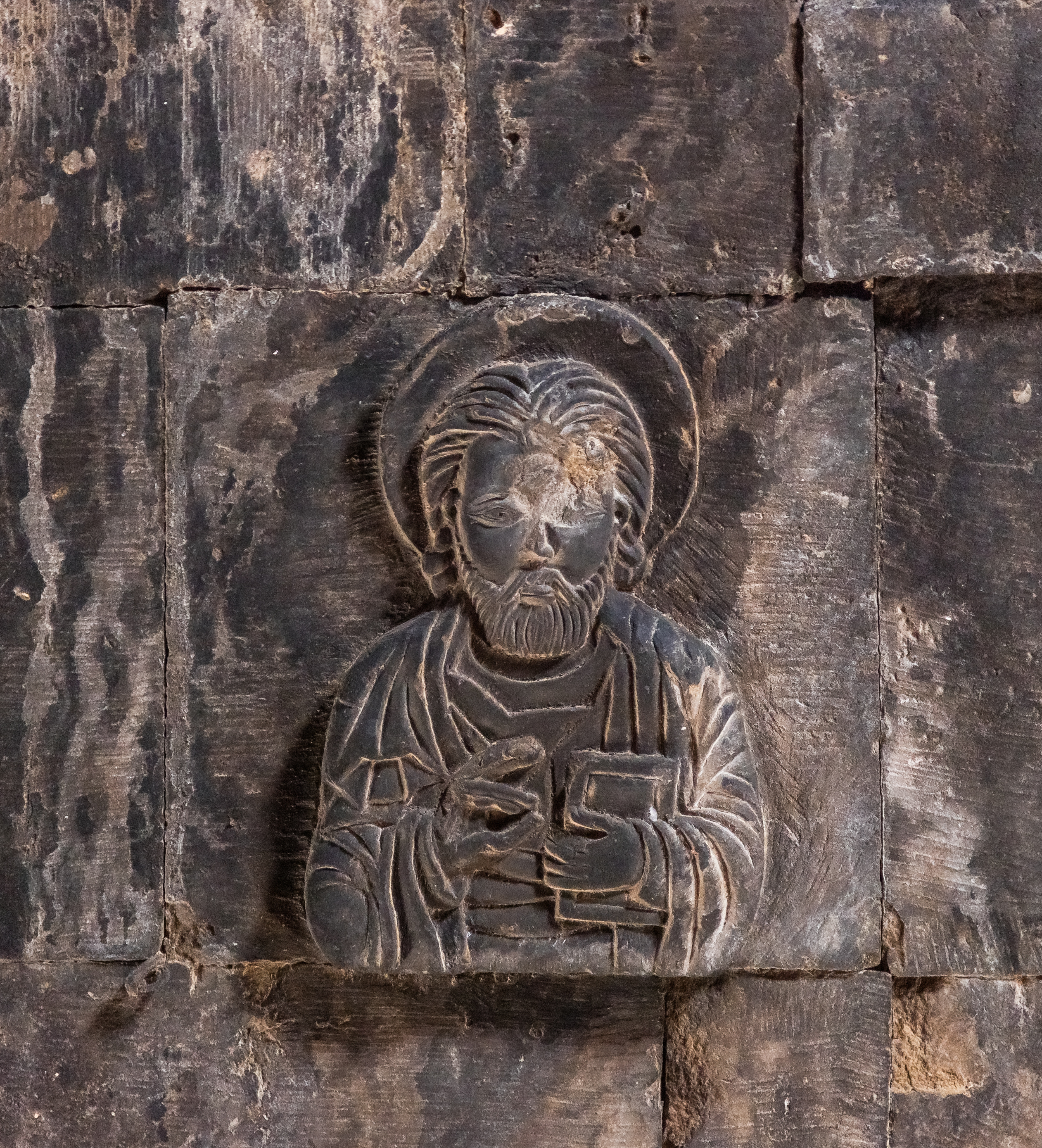 Noravank Monastery, Armenia